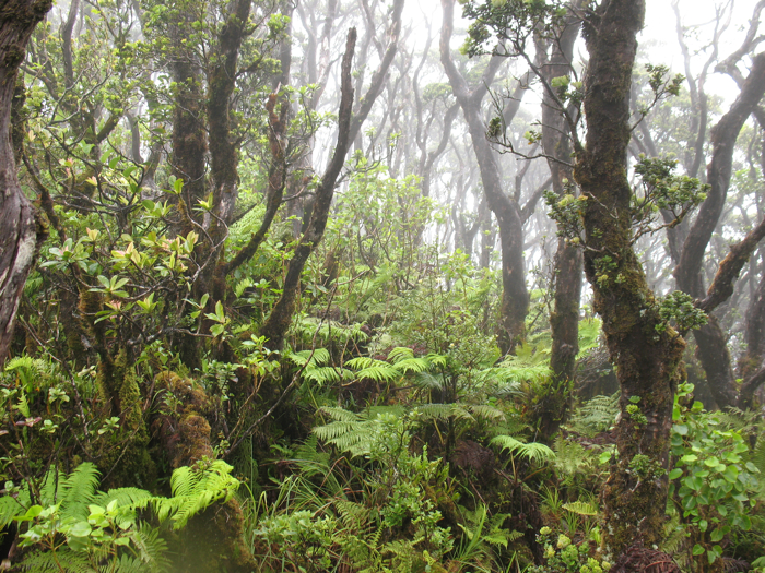 The native wet forests of Kohala Mountain are multi-layered, diverse ecosystems